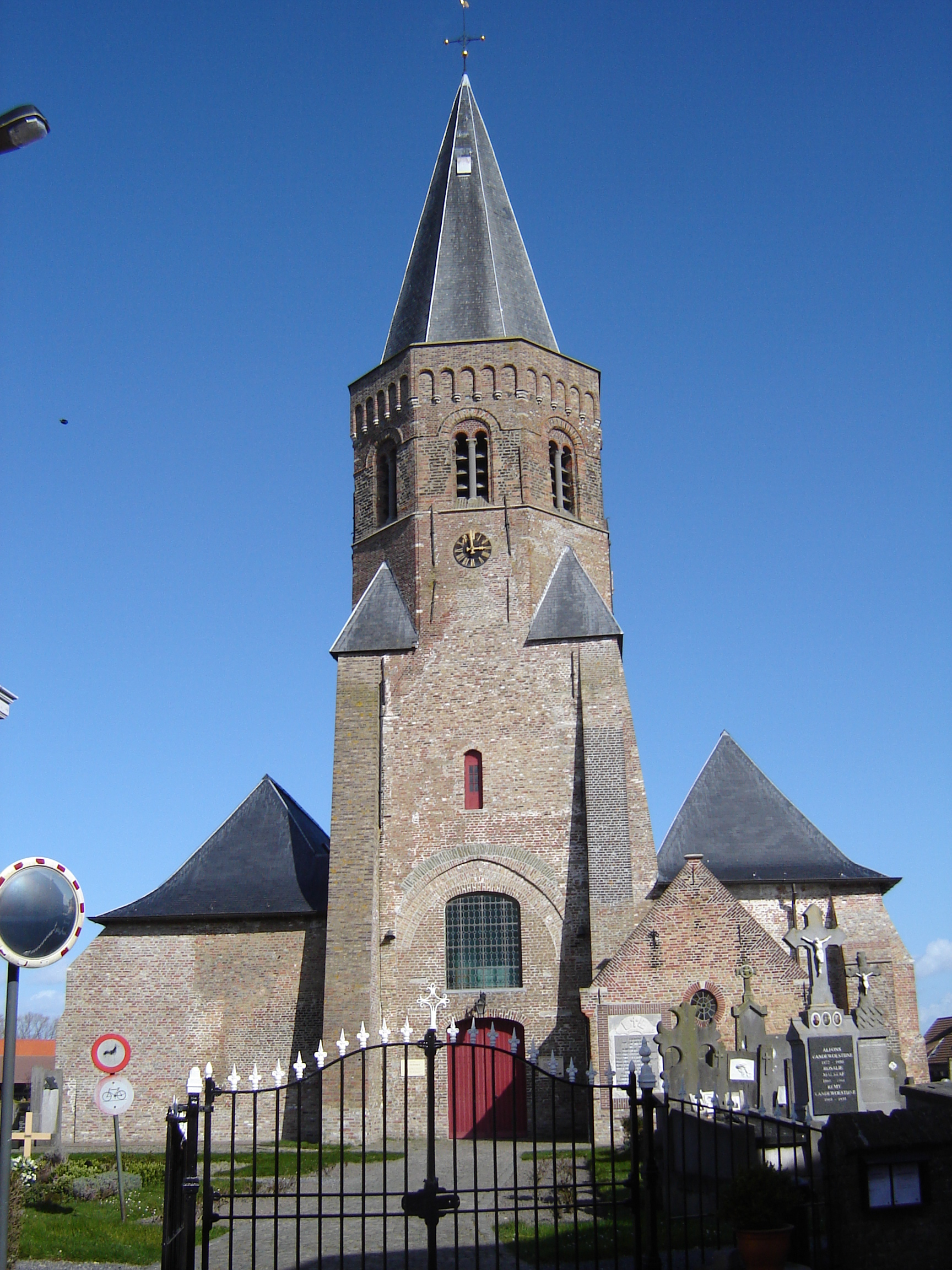 Church of Saint Michael in Zuienkerke, West Flanders, Belgium